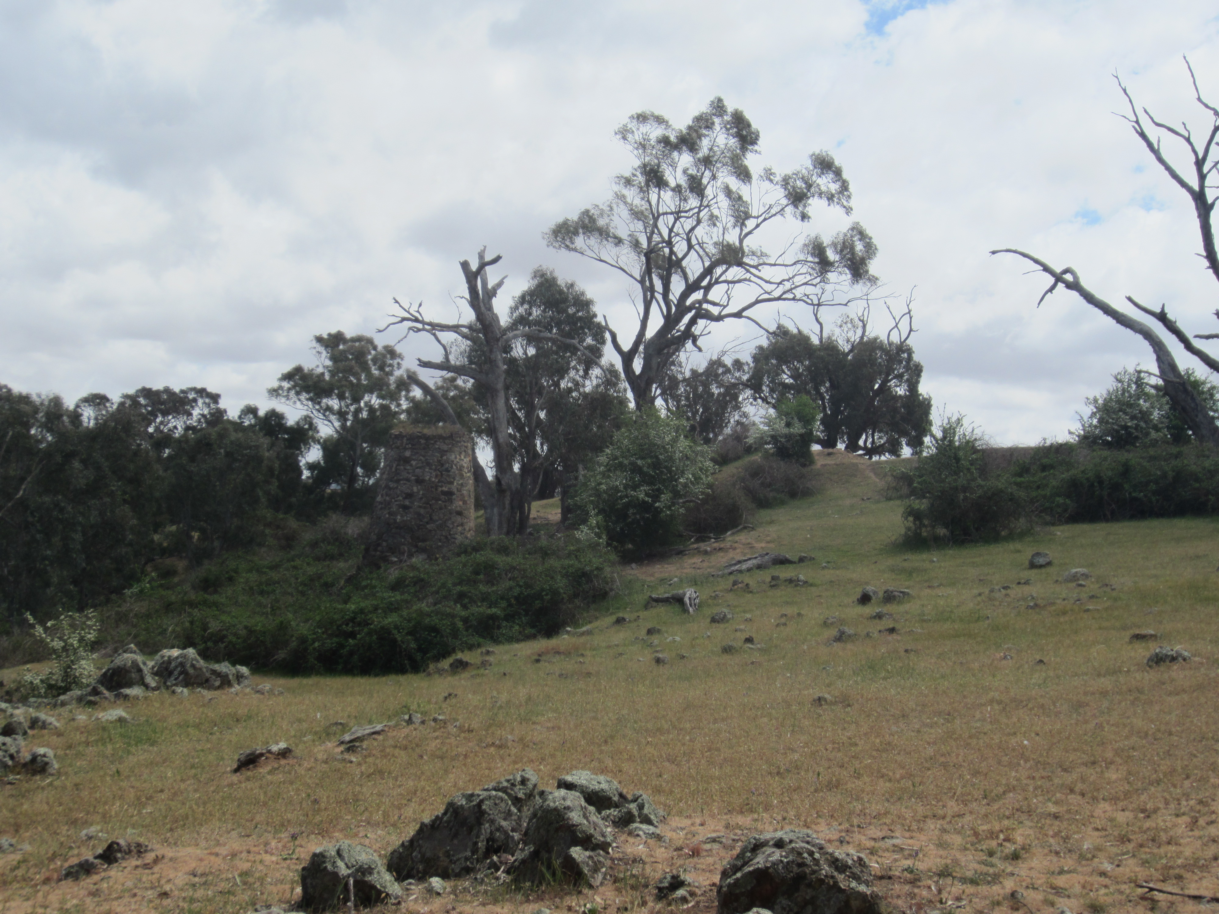 An overview of the site. Left to right; the casting floor on the extreme left, the blast furnace, the land where the gantry to the furnace top began. The ore mine was over the crest of the hill.